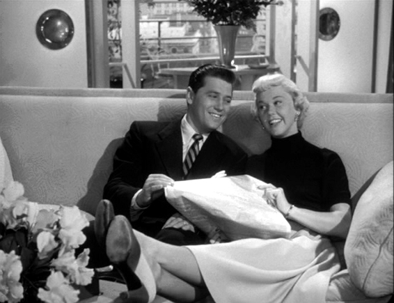 Gordon MacRae and Doris Day in the film Starlift (1951), taken from the film's trailer.